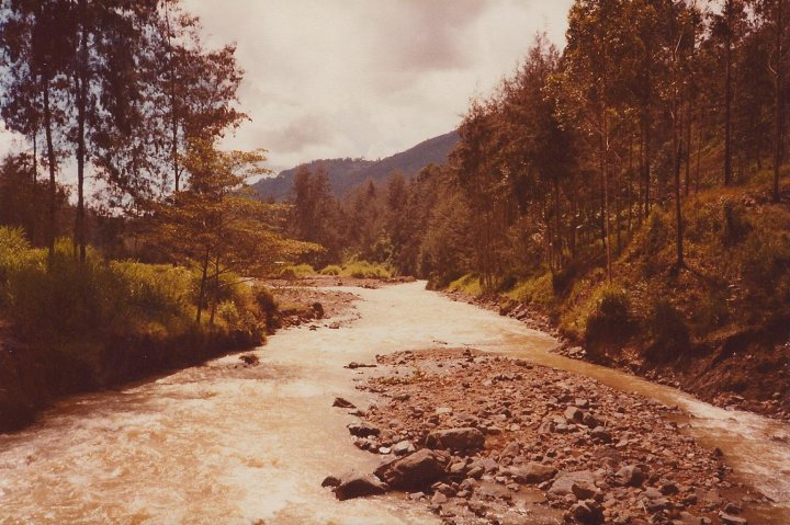 Ambum River in Enga Province